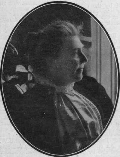 The-Lady Lady Laura Ridding by Ernest H Mills who died in 1942. So guess this at 1920